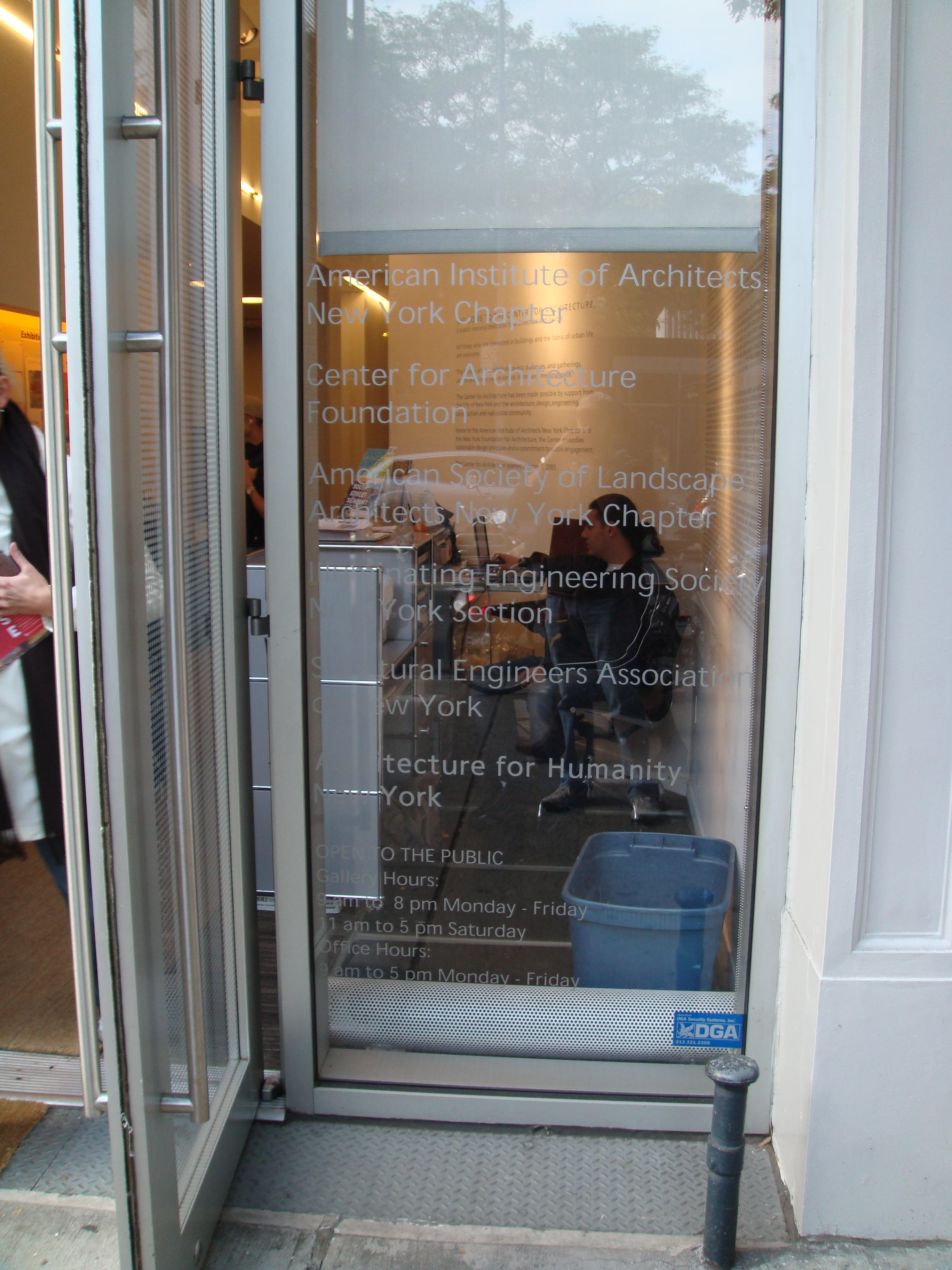 This photo is of Wikis Take Manhattan goal code F36, Center for Architecture.